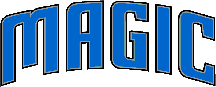 The current wordmark logo for the Orlando Magic. First used beginning with the 2008–09 NBA season.